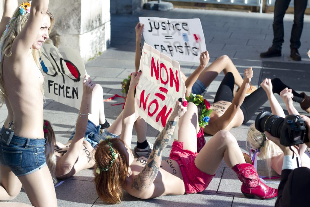 FEMEN protest. Ministry of Justice - France josephparis.fr/